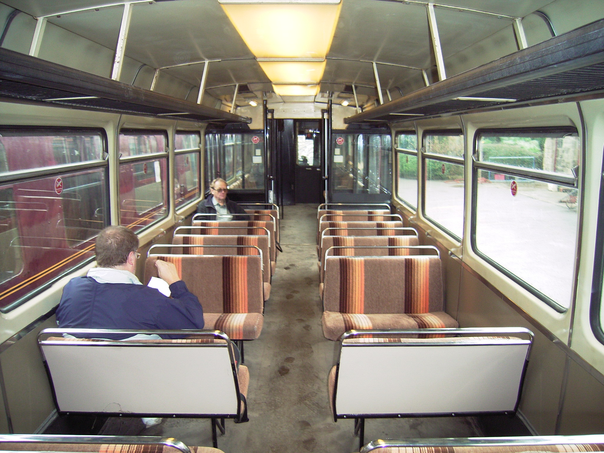 Interior shot of class 141 (141113) at Butterley railway station.